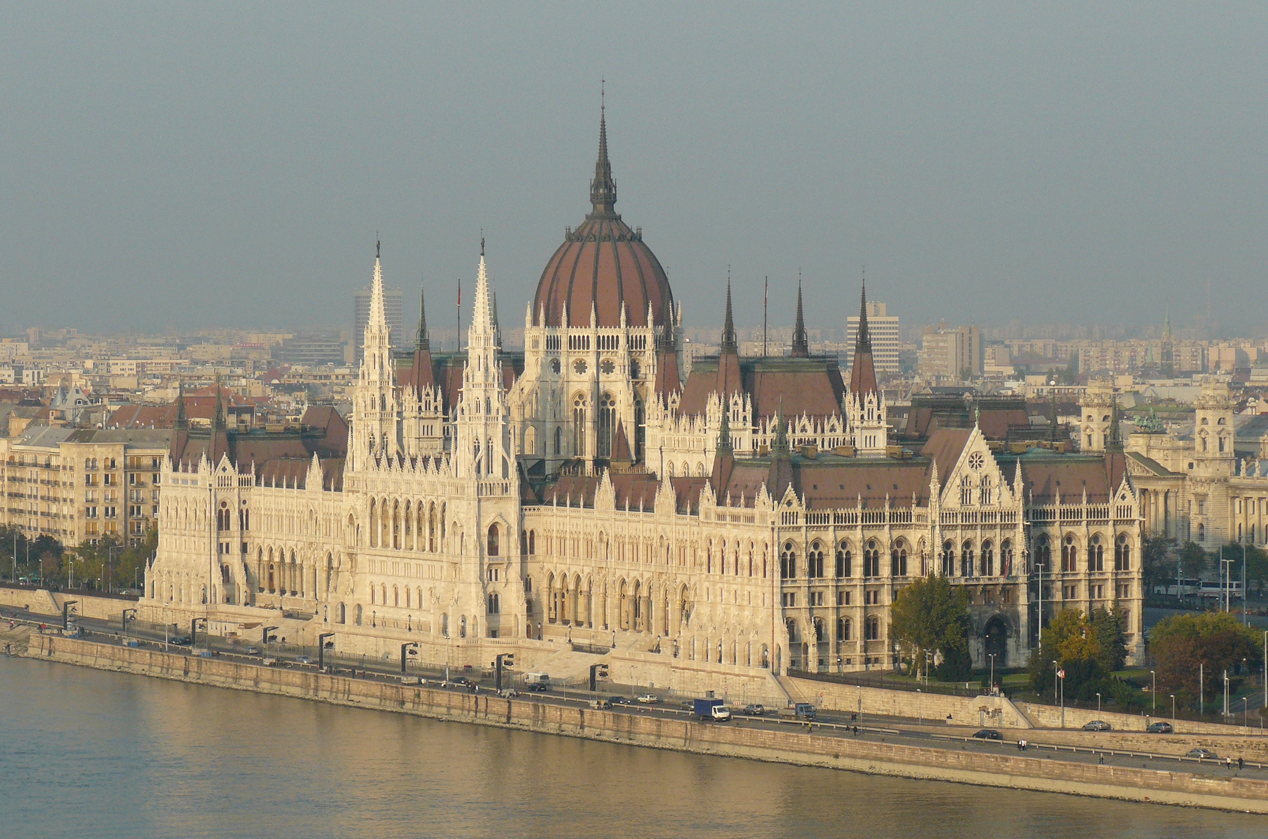 Building of the Hungarian Parliament after renovation. View from Buda castle.